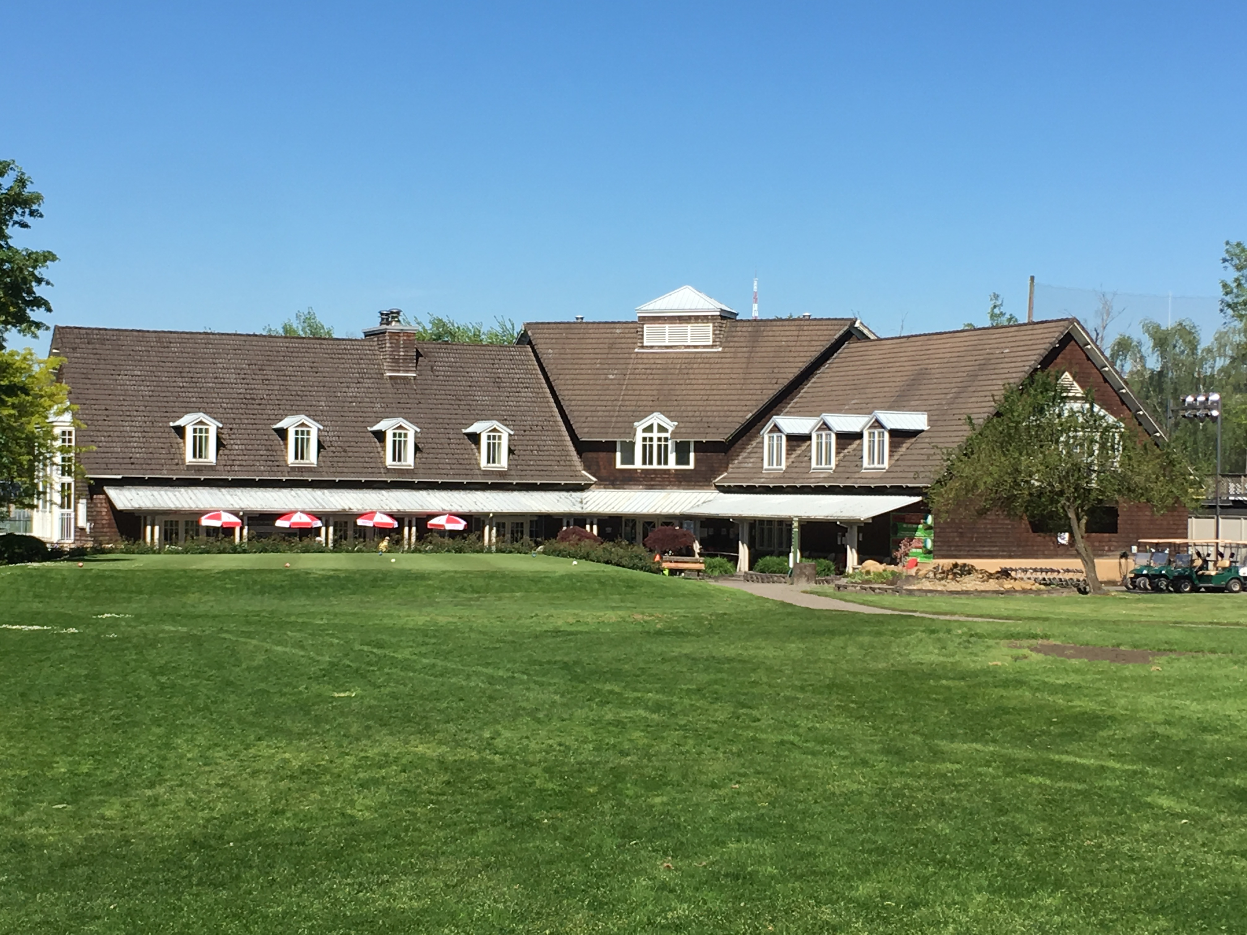 The Eastmoreland Golf Clubhouse (built 1989), located at 2425 Southeast Bybee Boulevard in Portland, Oregon, United States.